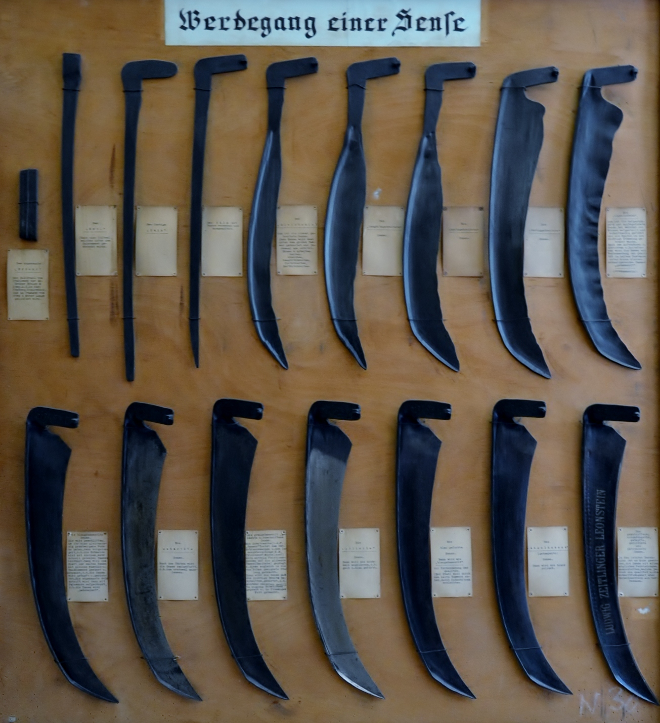 production steps of a scythe